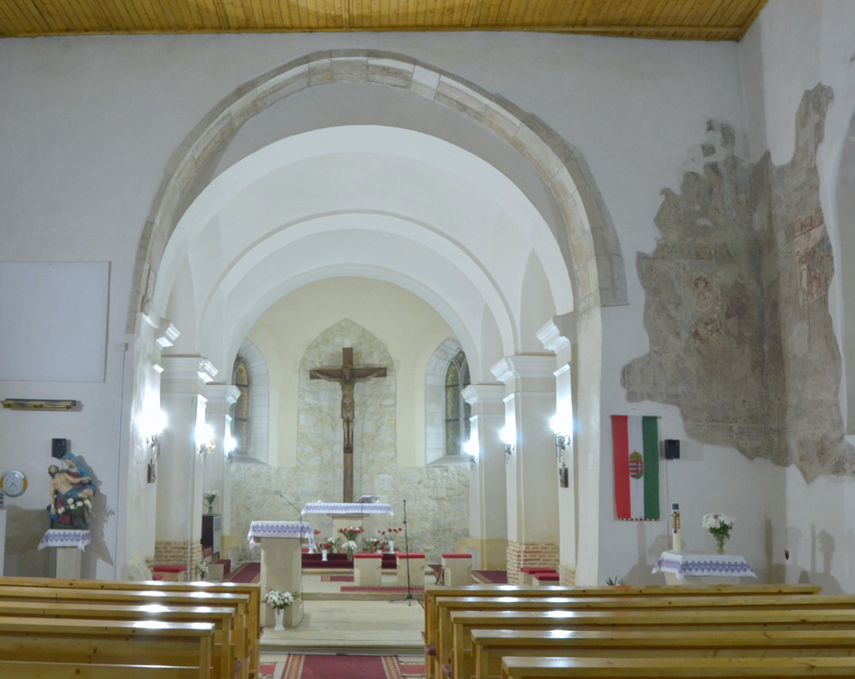 Roman-Catholic church in Florești, Cluj County, Romania